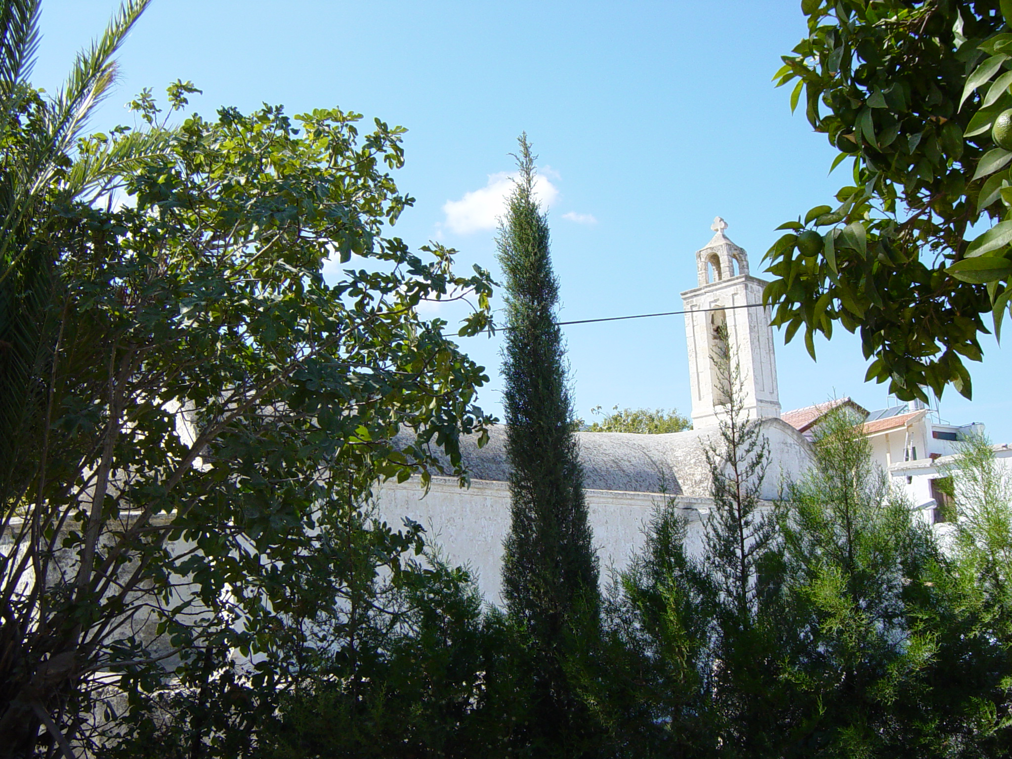 Disused Greek church in Turkish Cyprus.